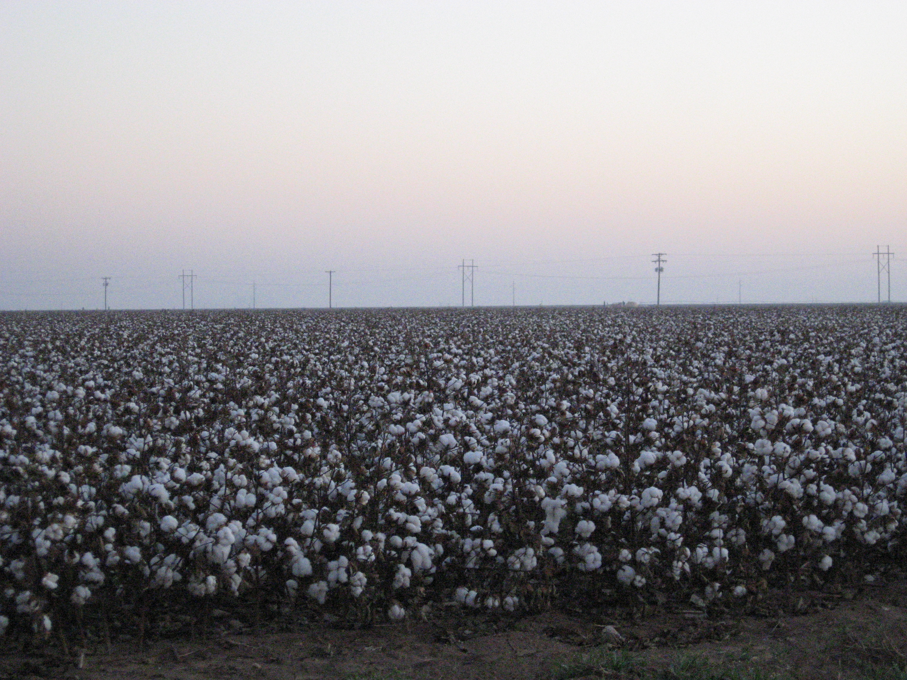 A cotton field (somewhere in the USA presumably)